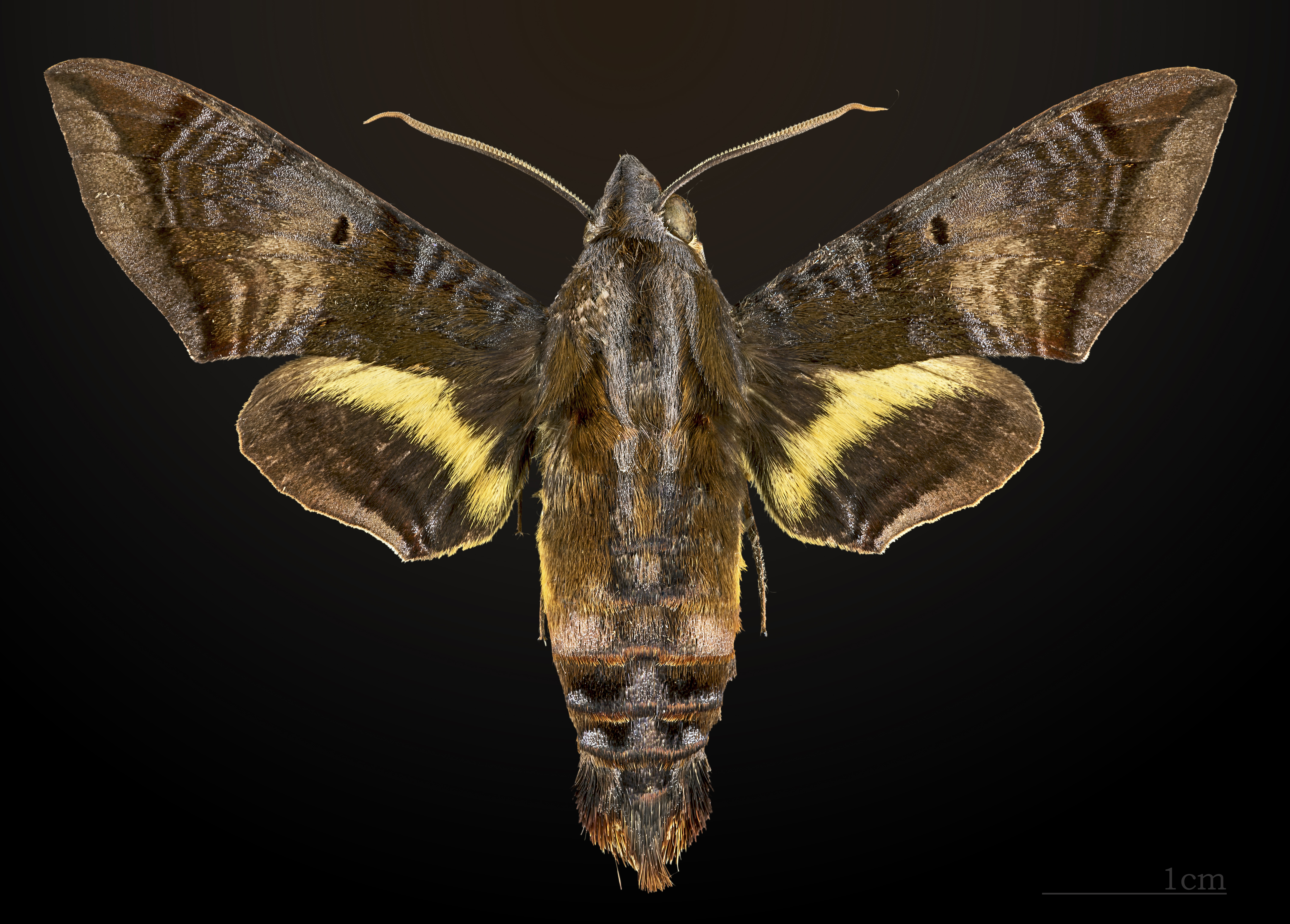 Eupyrrhoglossum venustum - Dorsal side Collection of the Mathematician Laurent Schwartz